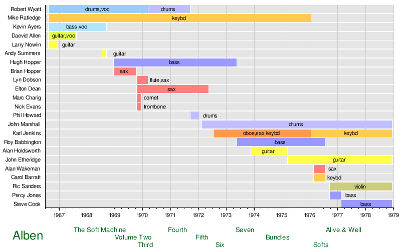 Soft Machine musicians chronology.